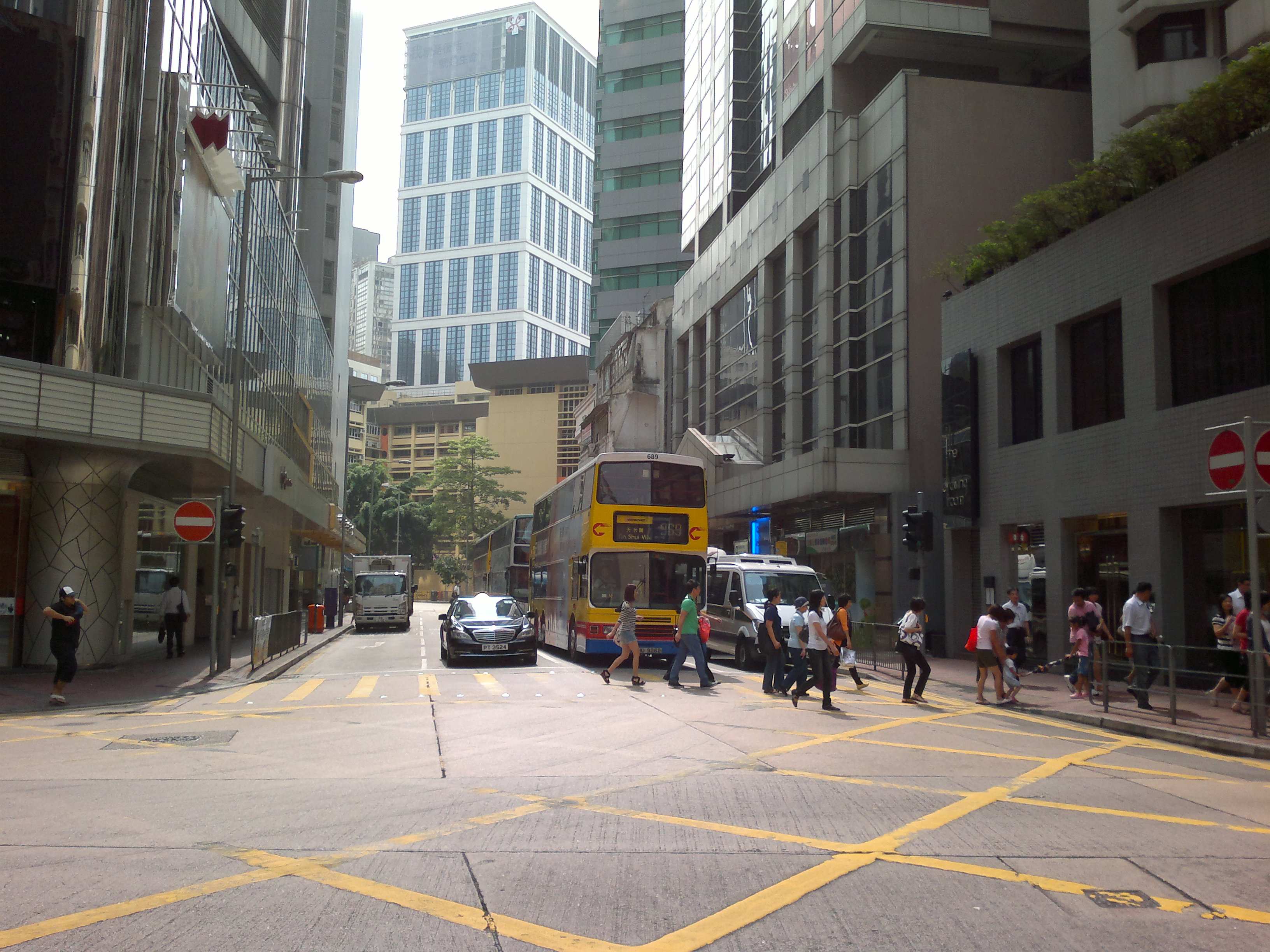 Irving Street near Pennington Street